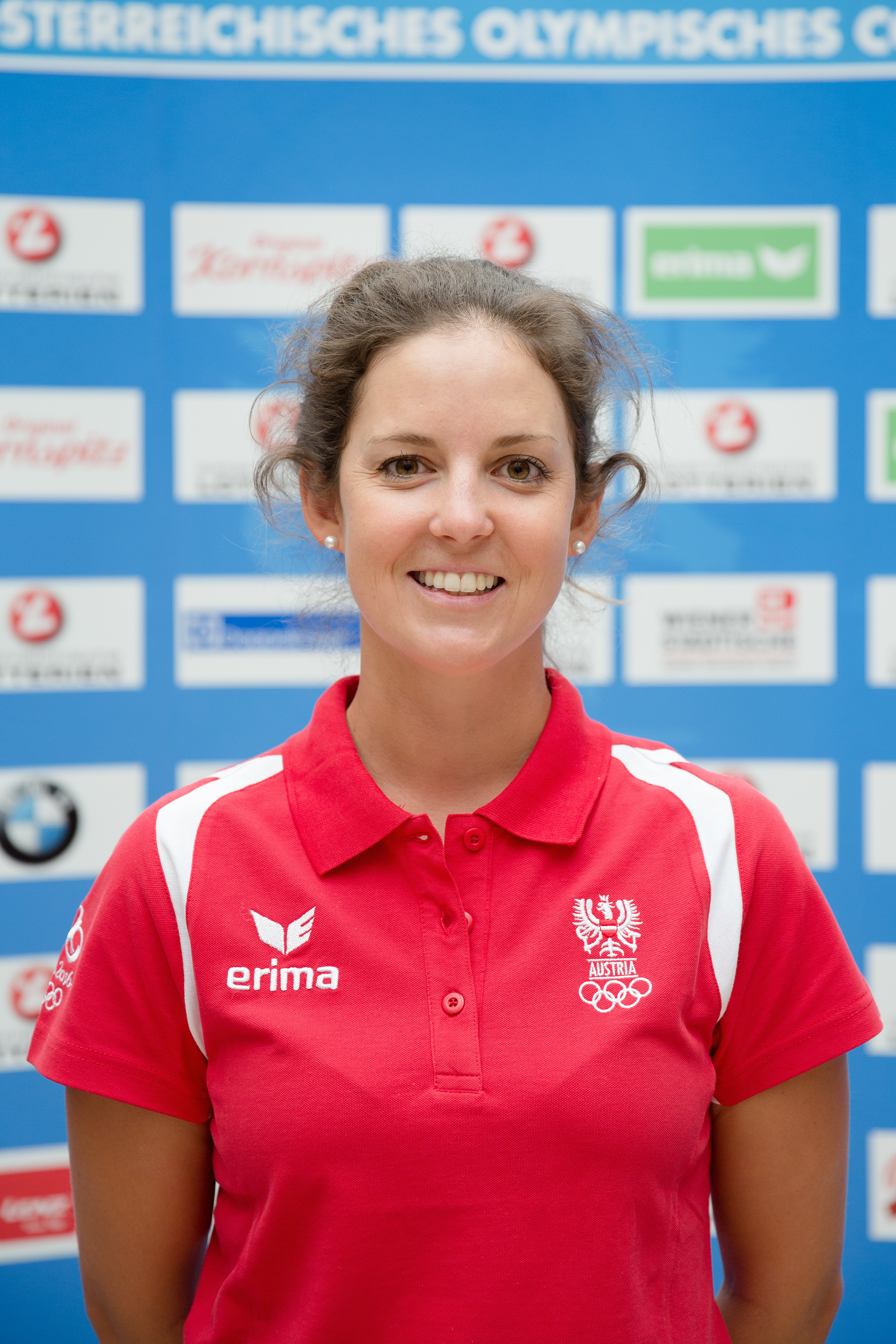 Christine Wolf at the hand-out of the Austrian teams official attire for the 2016 Summer Olympics (Marriott, Vienna).